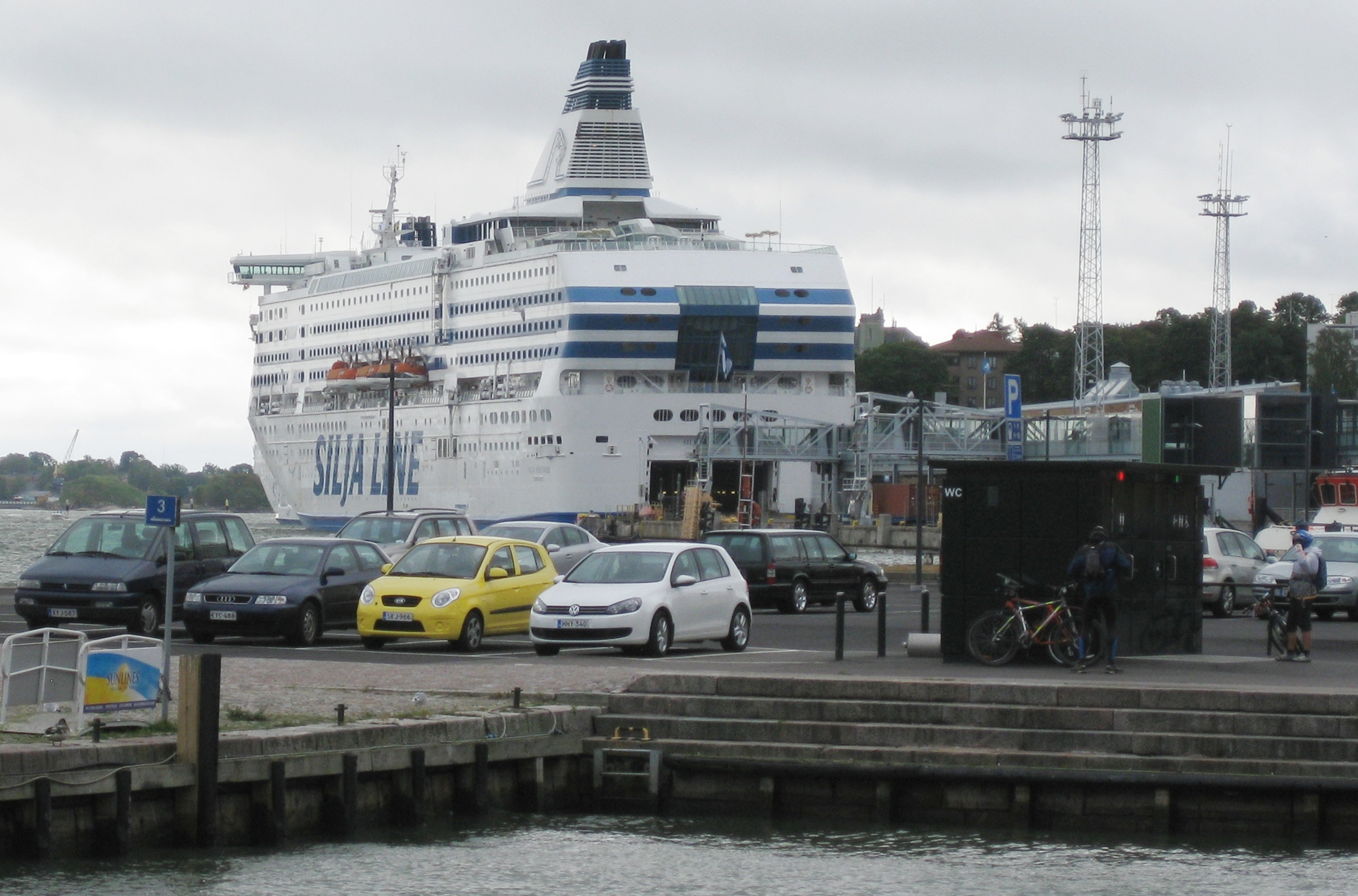 MS Silja Serenade in the harbour Eteläsatama in Helsinki, Finland.